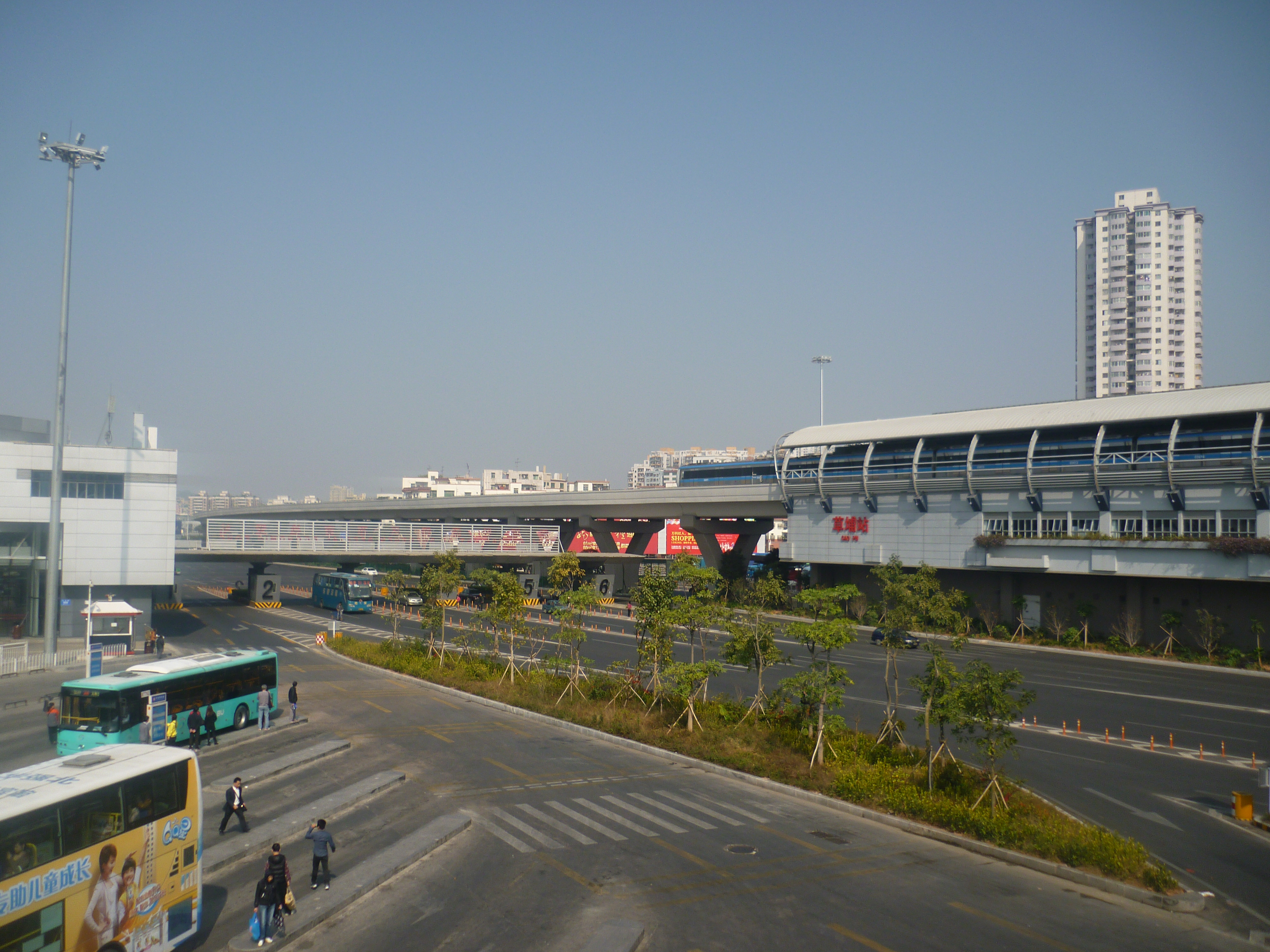 Buji Checkpoint in 2012.